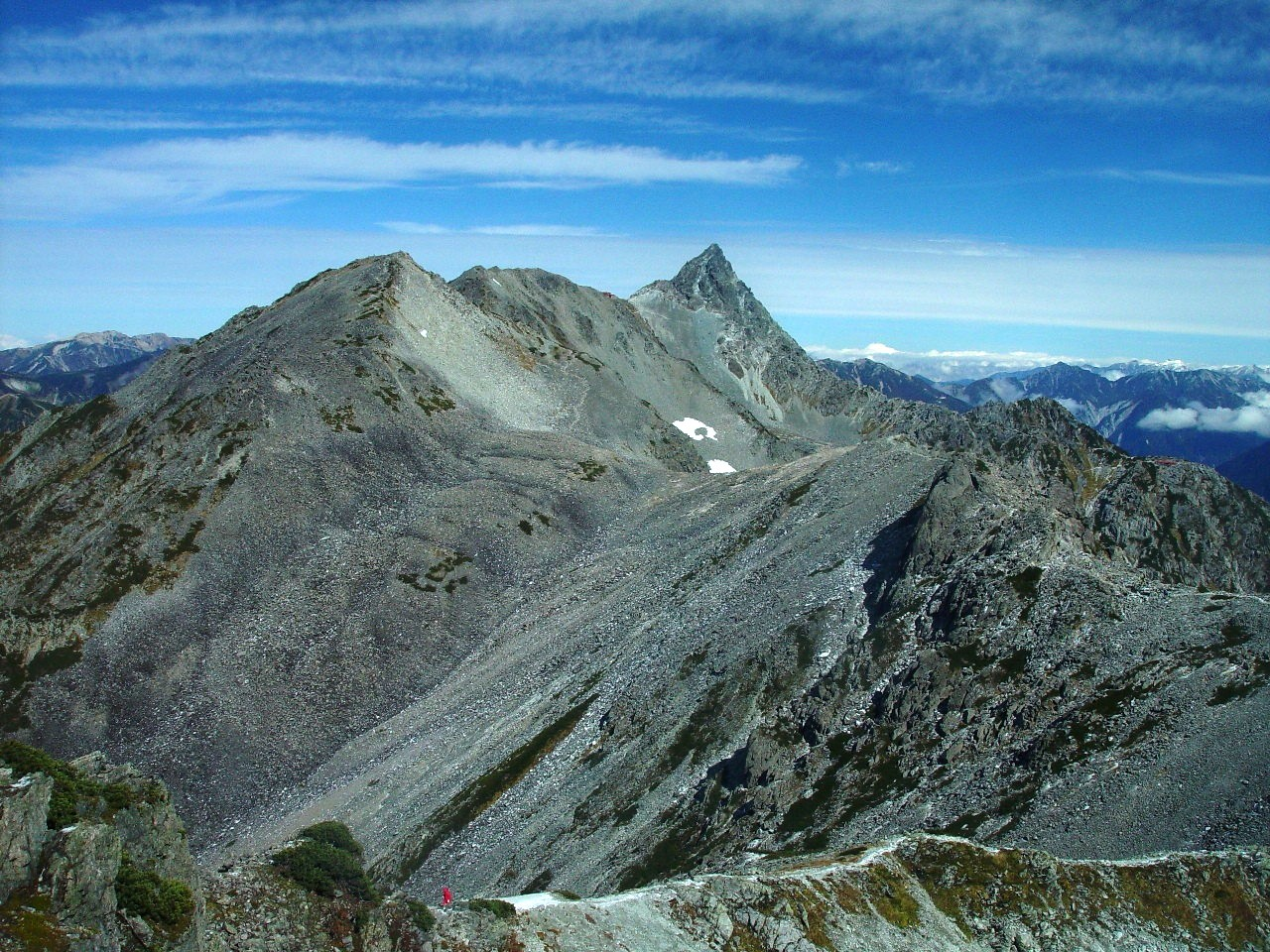 Mount Yari and Mount Nakadake from Mount Minami